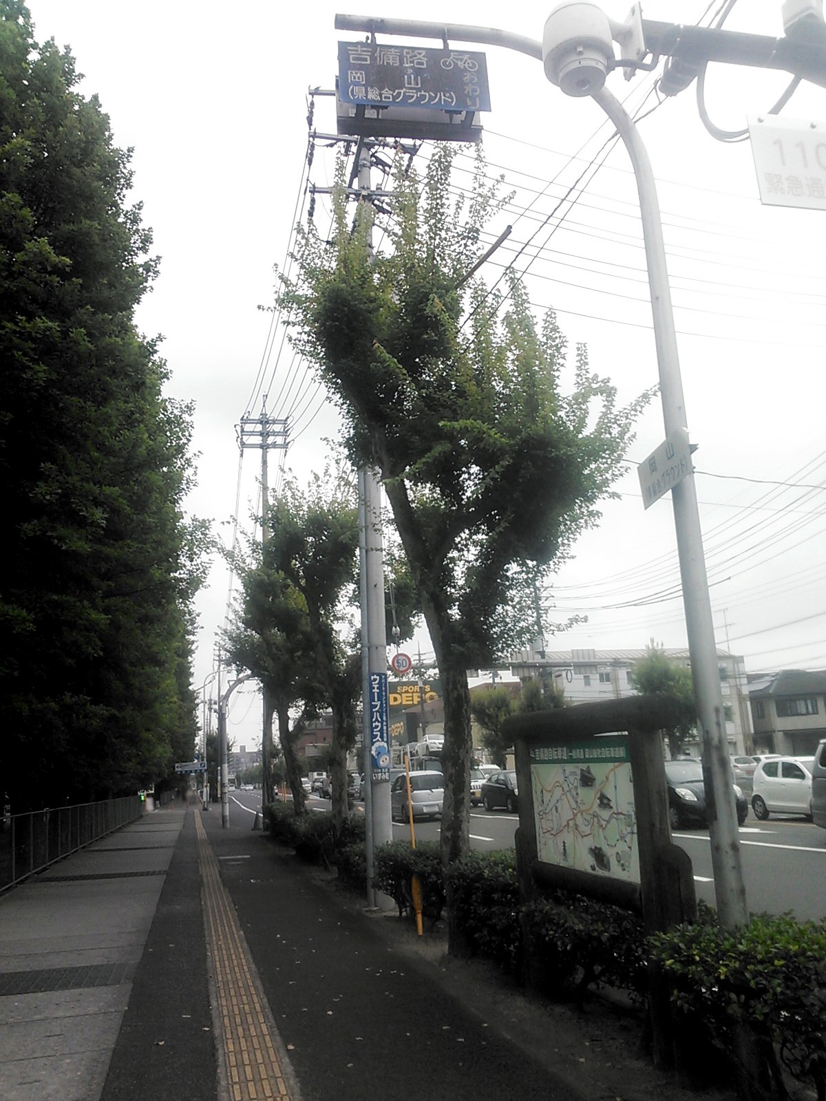 End Sign of Okayama prefectural roads route 700. for Soja to Okayama-city.